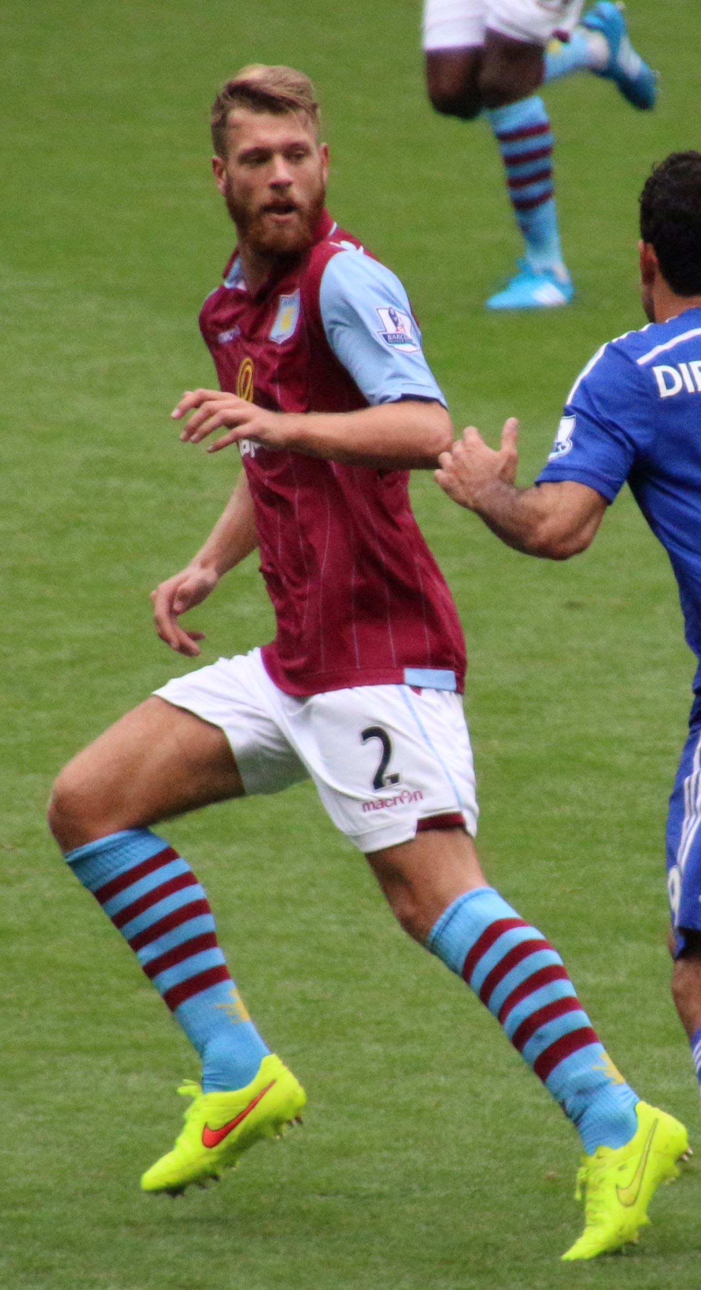 Chelsea 3 Aston Villa 0 Premier League match between Chelsea and Aston Villa at Stamford Bridge on 27 September 2014.